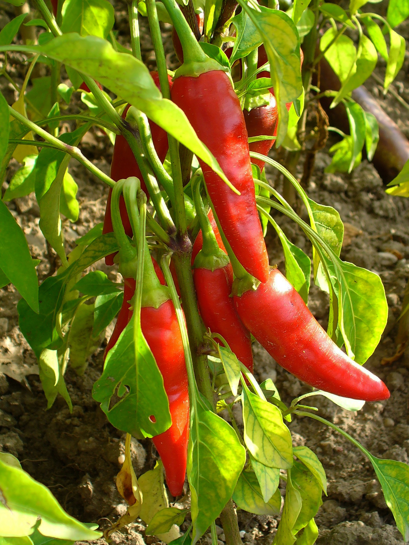 Capsicum annuum ’de Cayenne’, Solanaceae, Red Pepper, fruits; Botanical Garden KIT, Karlsruhe, Germany. The ripe dried fruits are used in homeopathy as remedy: Capsicum (Caps.)